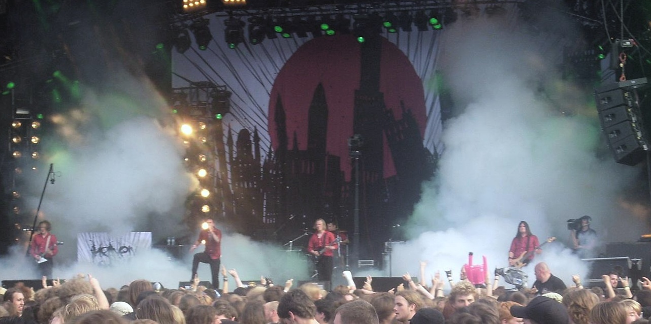 Heaven Shall Burn on Wacken Open Air 2009